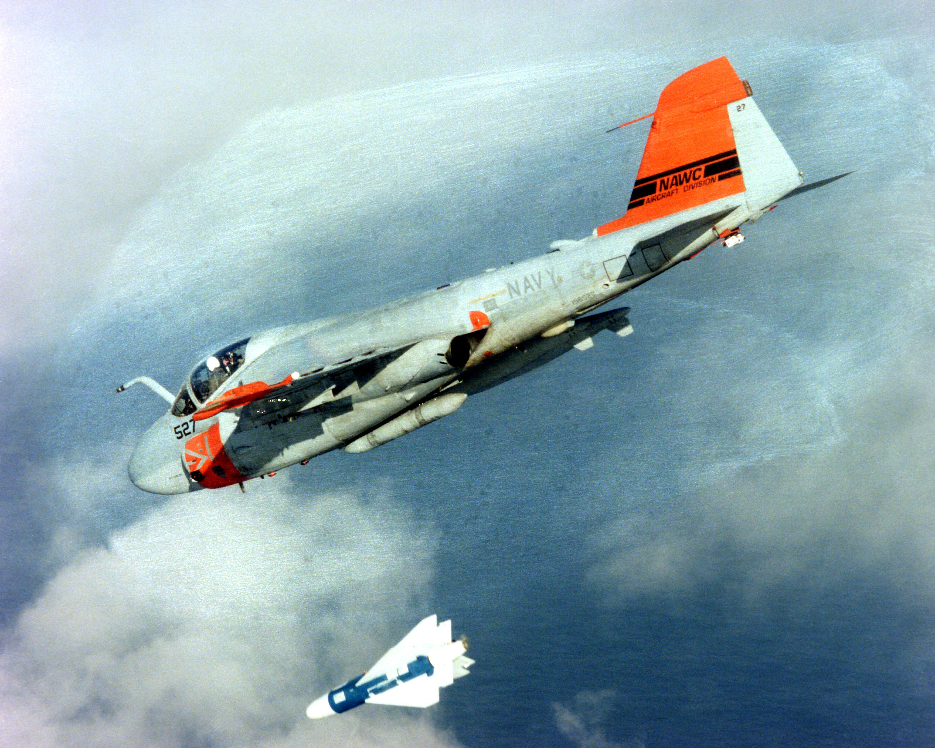 A U.S. Navy Grumman A-6E Intruder aircraft (BuNo 156926) from the Naval Air Warfare Center Aircraft Division Pax River Ordnance Systems Department released a Walleye II extended range data link missile over the Atlantic Ocean during a flight to fully certify the weapons for use on Fleet Intruders. The Walleye II, a 2,000 pound class standard offensive weapon used on other Navy aircraft, has now been given the green light to be used on the Intruder.